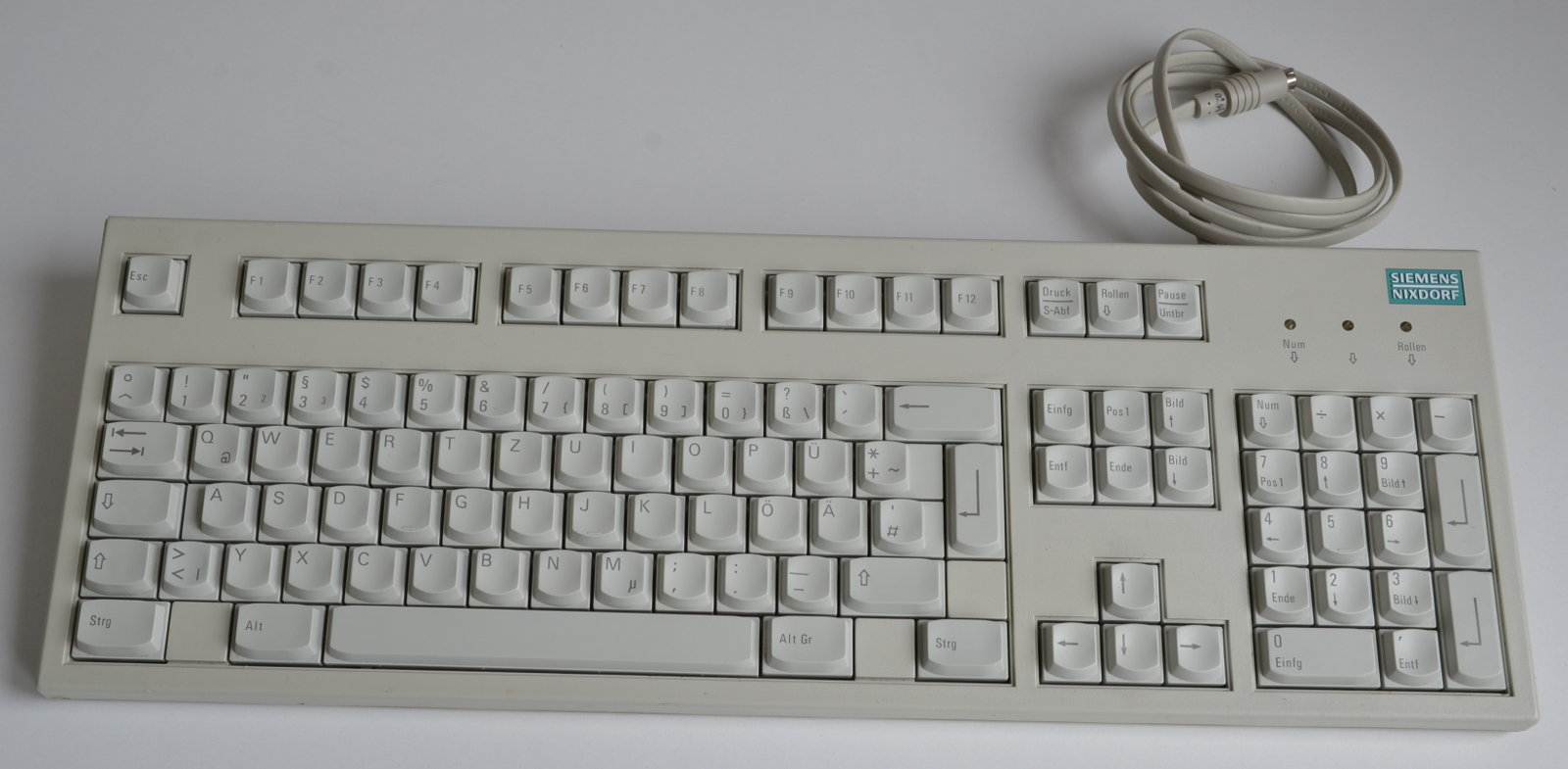 Keyboard from Siemens-Nixdorf with the typical turquoise logo, geman layout and PS/2 connector. Part-no S26381-K200-V120